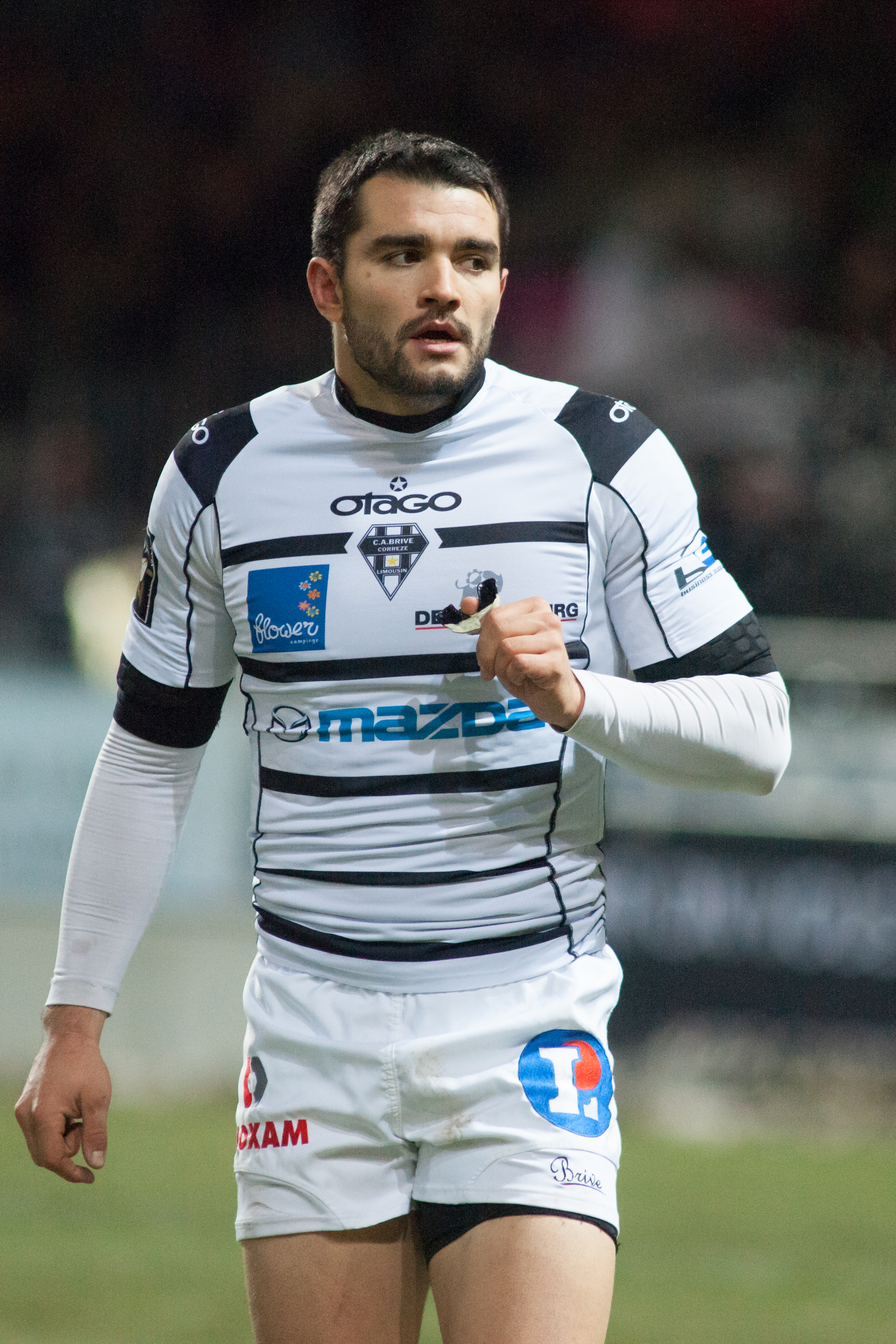 The making of this document was supported by Wikimedia CH. (Submit your project!) For all the files concerned, please see the category Supported by Wikimedia CH. US Oyonnax vs. CA Brive, 30th November 2013